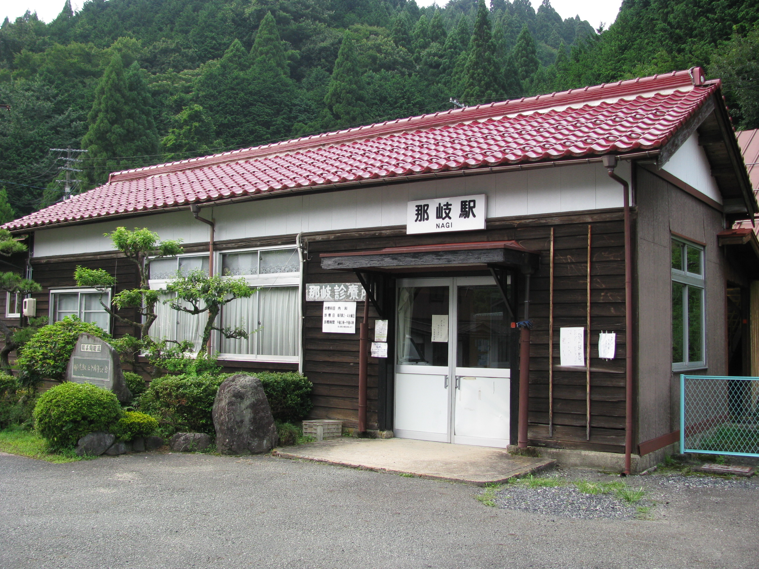 The Nagi Station of Inbi Line.